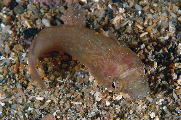 Lepadogaster candolii photographed near Tuscany coasts (Italy). Photo by Stefano Guerrieri.